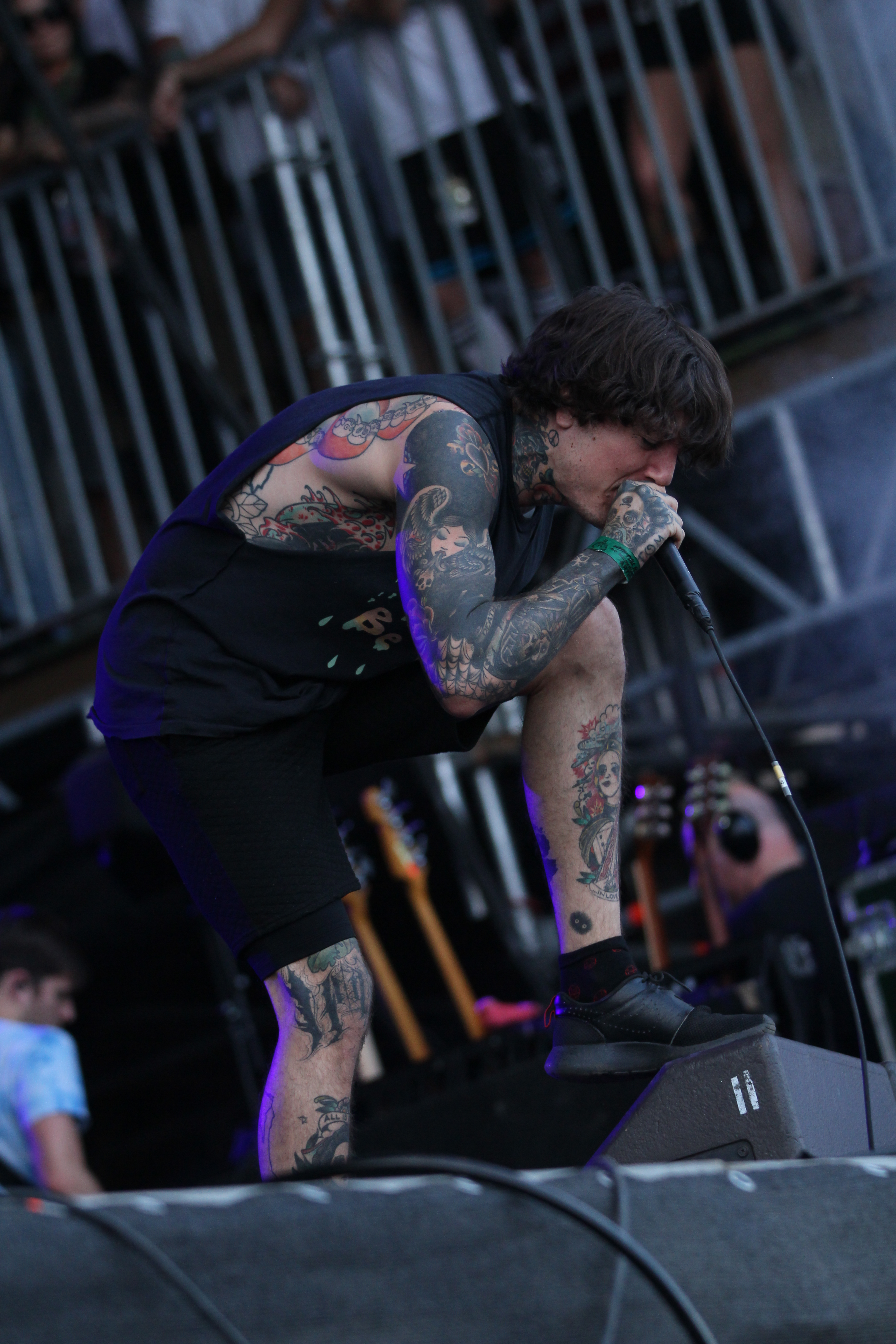 The English metalcore/deathcore band Bring Me the Horizon at the With Full Force festival 2014 in Roitzschjora/Germany